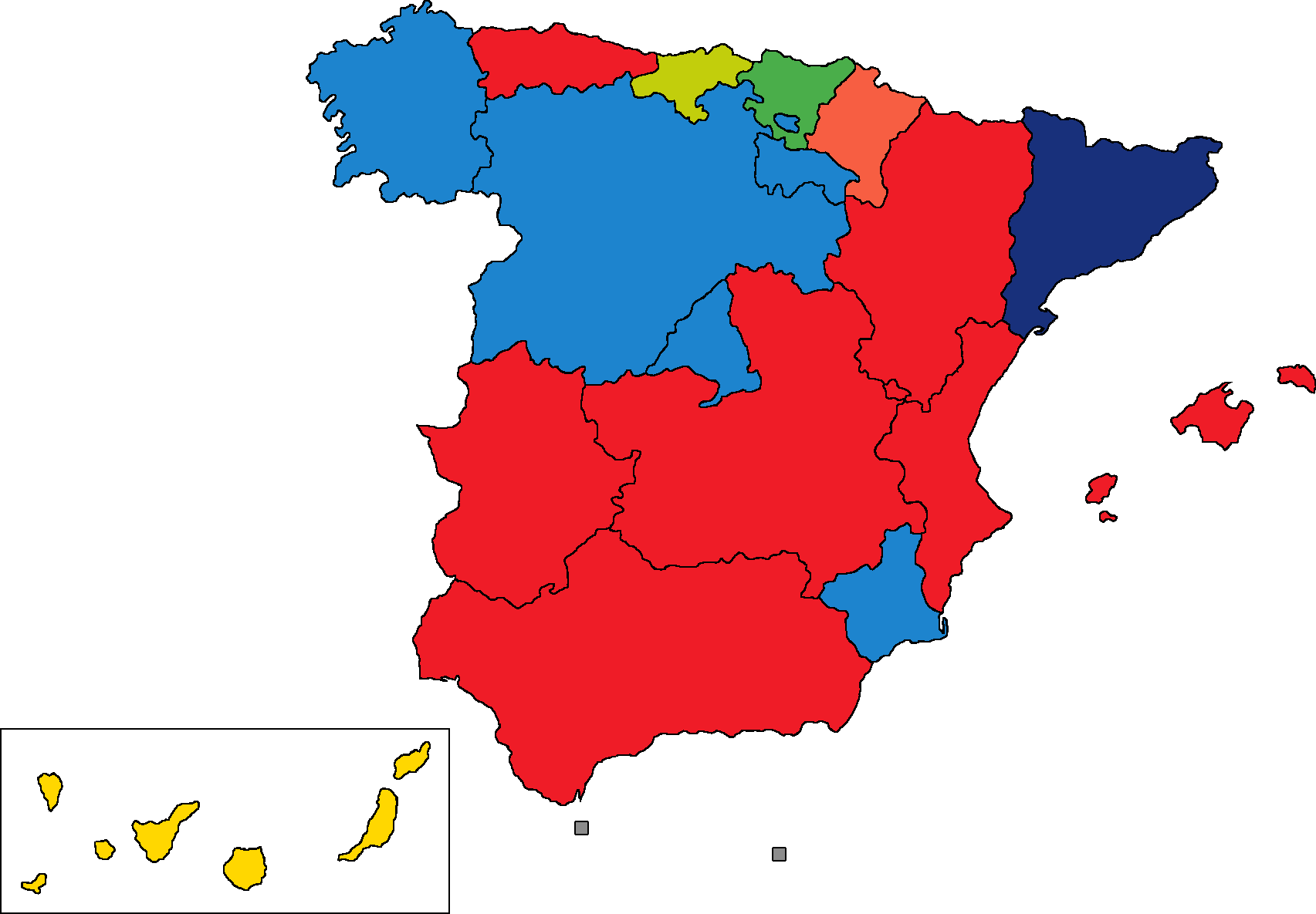 Regional administrations in Spain after the 24 May 2015 regional elections. PSOE PP CiU EAJ/PNV CC GBai PRC